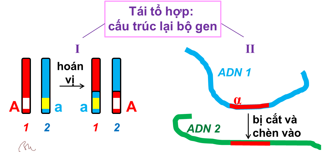 Two form of recombination gene.